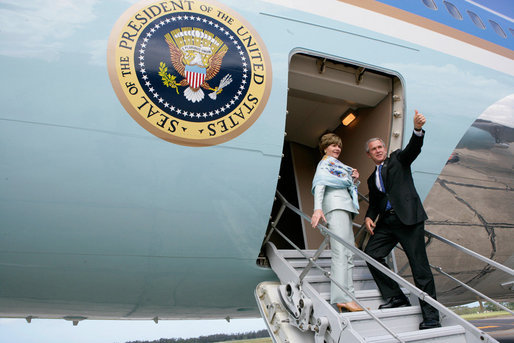 George and Laura Bush board Air Force One after attenting the 4th summit of the Americas in Argentina.